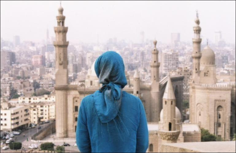 Hijabi in front of the Sultan Hassan Mosque (left) and the Rifa'i Mosque (right) in Cairo. Hijabi in front of mosque in Cairo